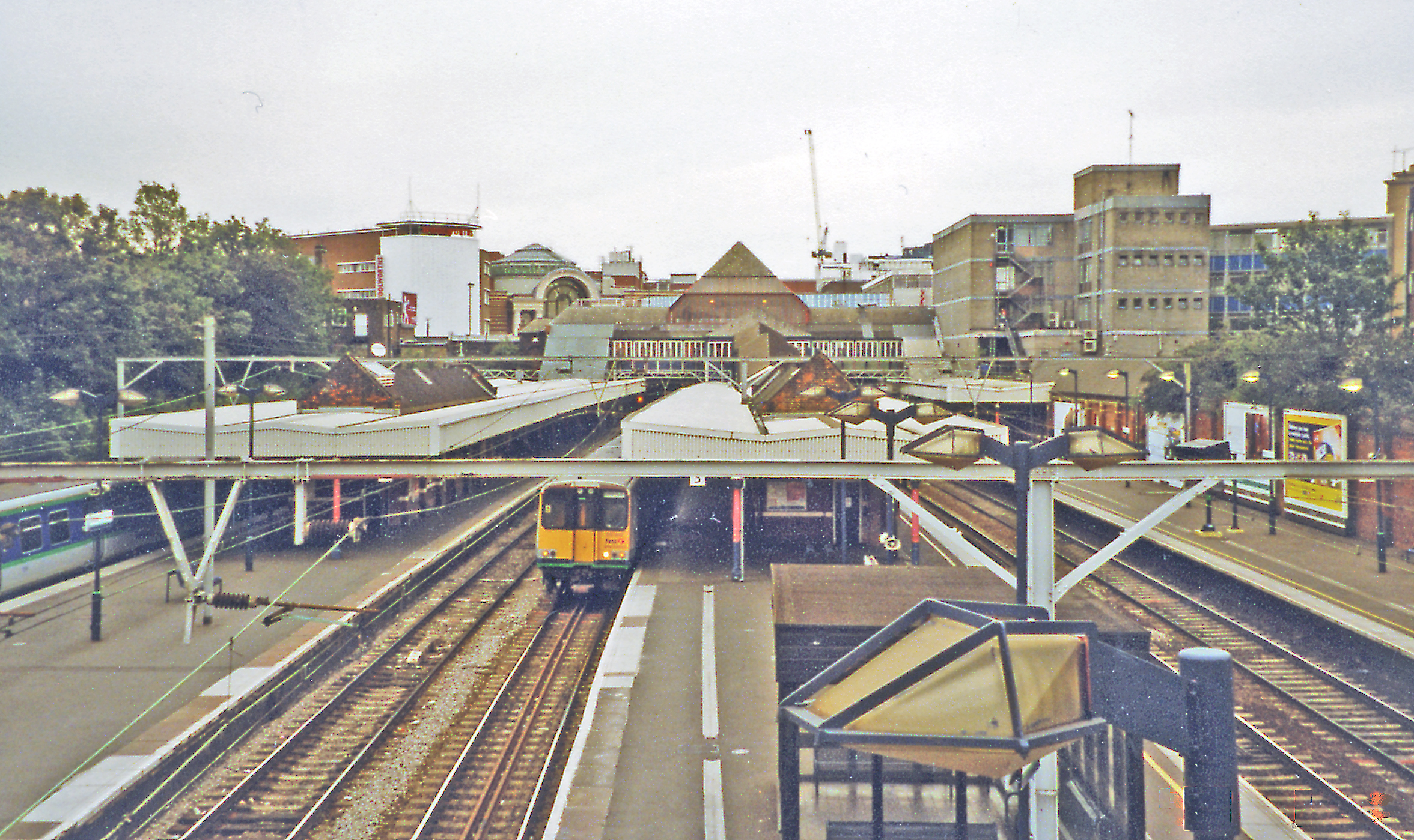 Ilford station. View eastward above and along Platforms 2/33: ex-GER main line London Liverpool Street - Shenfield - Chelmsford - Colchester etc., electrified to Shenfield in 1949, to Chelmsford and Southend in 1956, Colchester in 1962, eventually through to Norwich by 1985. The Fast lines are on the right (Platforms 1 and 2); local trains use Platforms 3 and 4; Platform 5 on the far left is a bay.